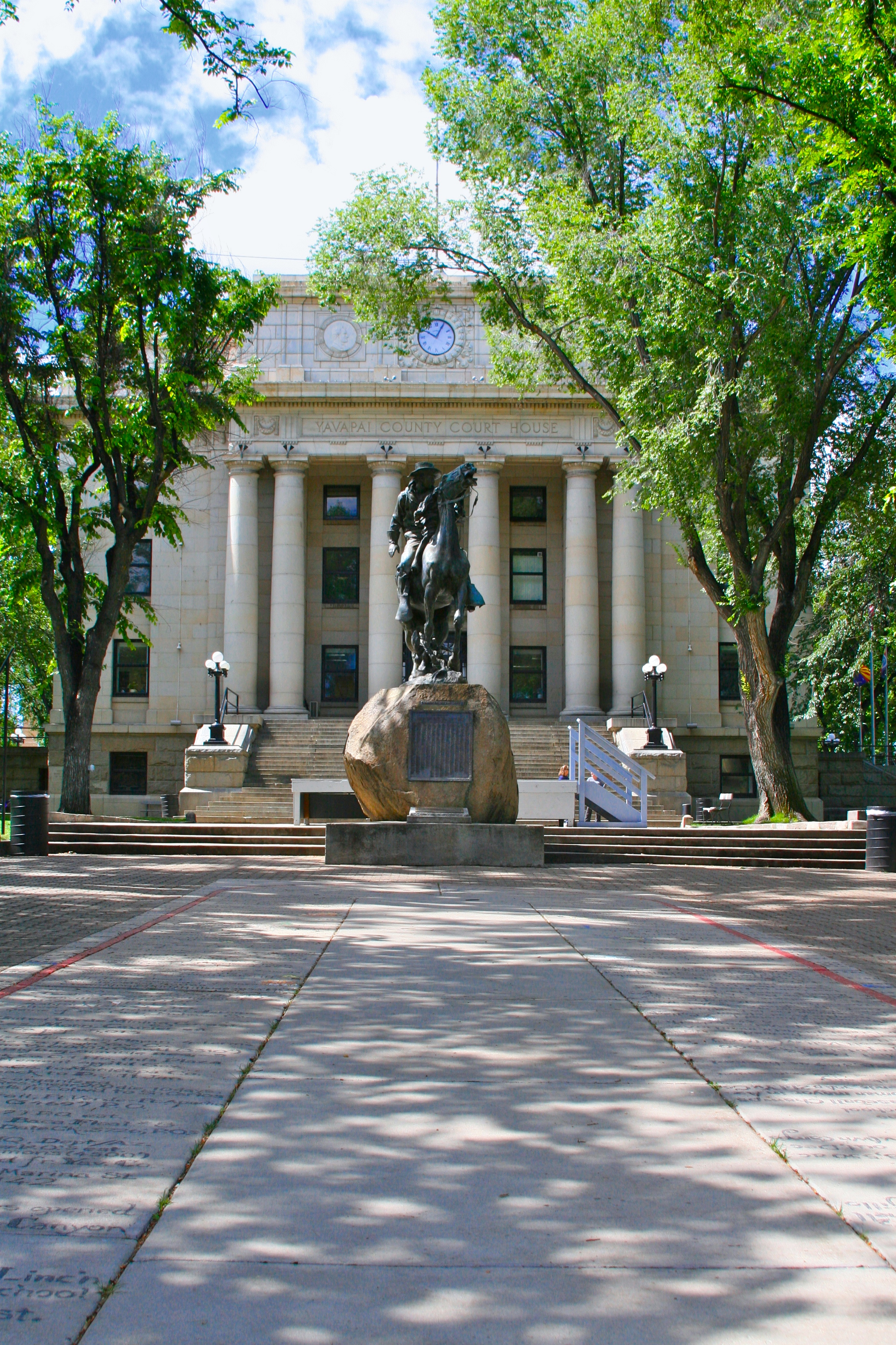 North side of the County Courthouse with Buckey O'Neil statue in foreground.